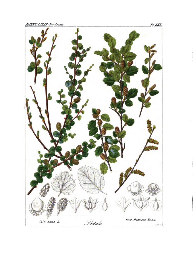 Betula nana, Betula fruticosa. Botanical illustrations from Icones florae Germanicae et Helveticae ...